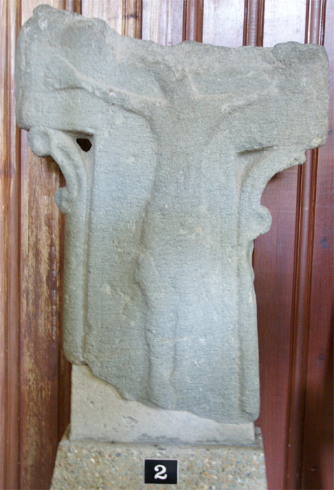 Kilmartin Sculptured Stones, Kilmartin Glen, Scotland - cross no 2 (in church)